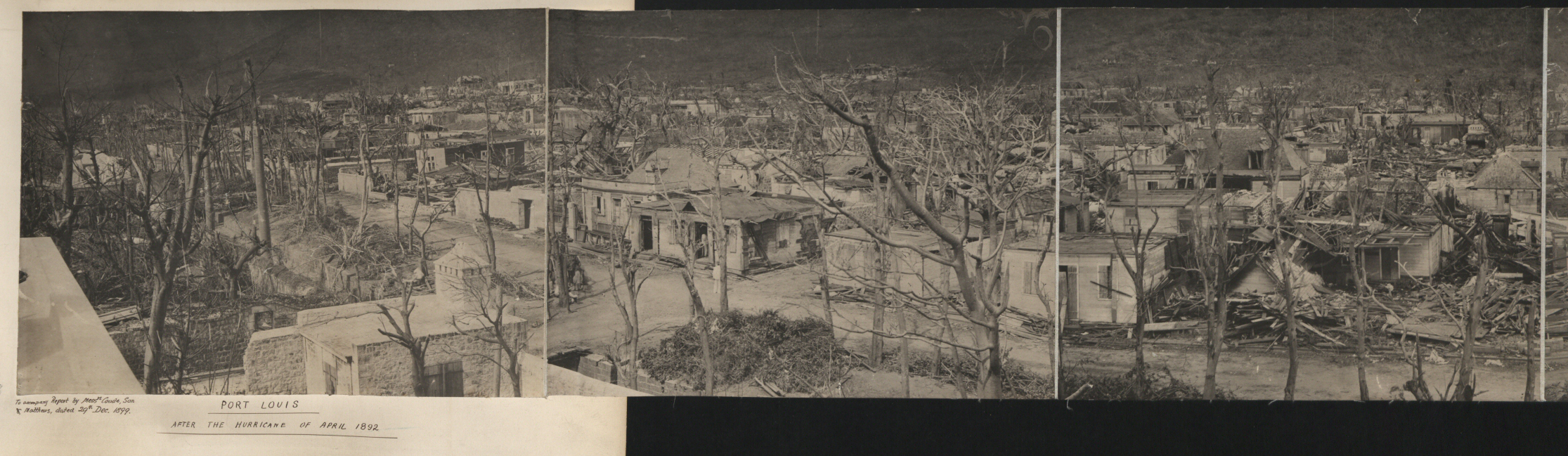 Port Louis, after the hurricane of April 1892 Location: Port Louis, Mauritius Date: 29 December 1899 Our Catalogue Reference: Part of CO 1069/746 This image is part of the Colonial Office photographic collection held at The National Archives. Feel free to share it within the spirit of the Commons Please use the comments section below the pictures to share any information you have about the people, places or events shown. We have attempted to provide place information for the images automatically but our software may not have found the correct location.